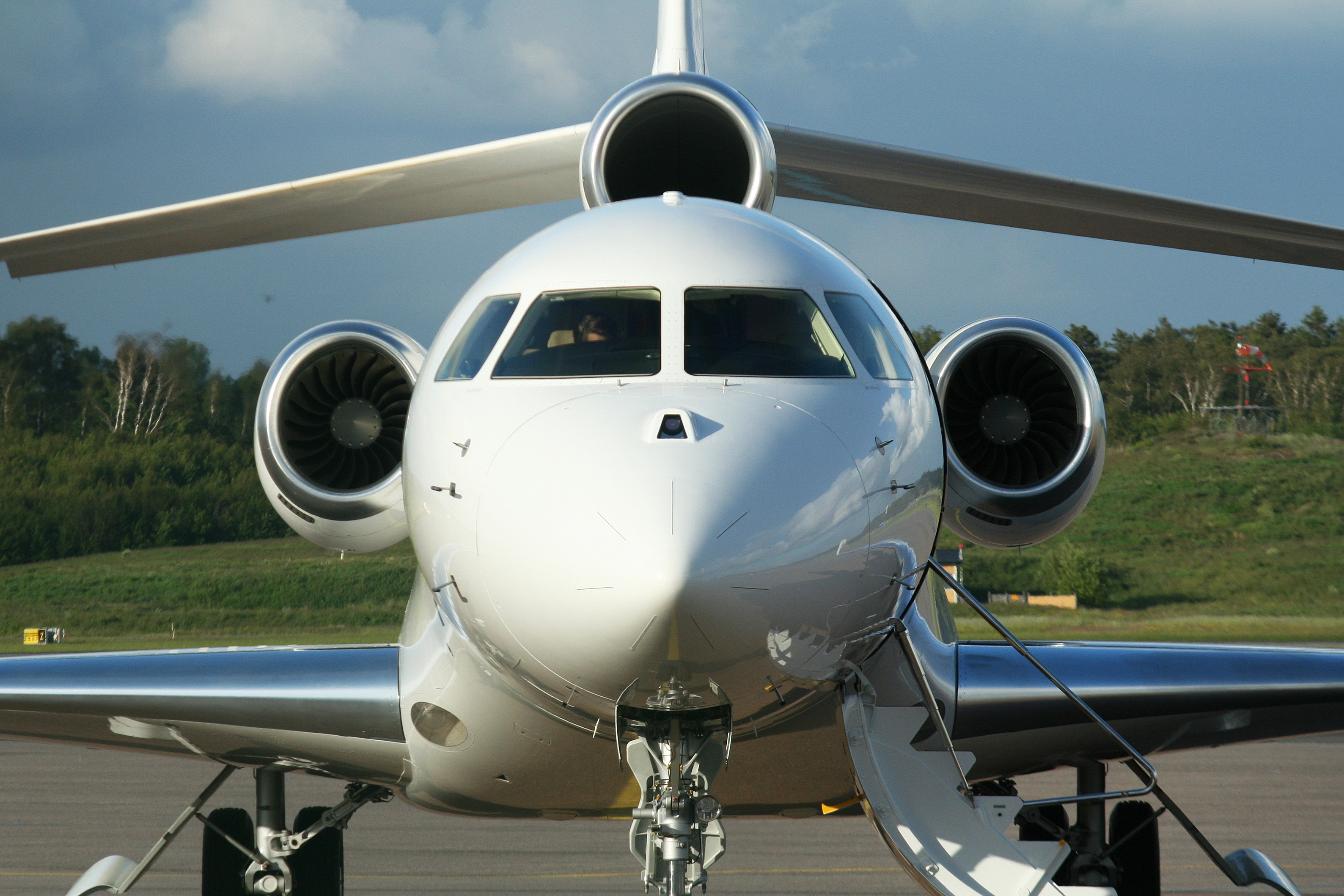 Operated by Air Alsie. msn 85. Gothenburg City Airport (Save). 04-6-2012